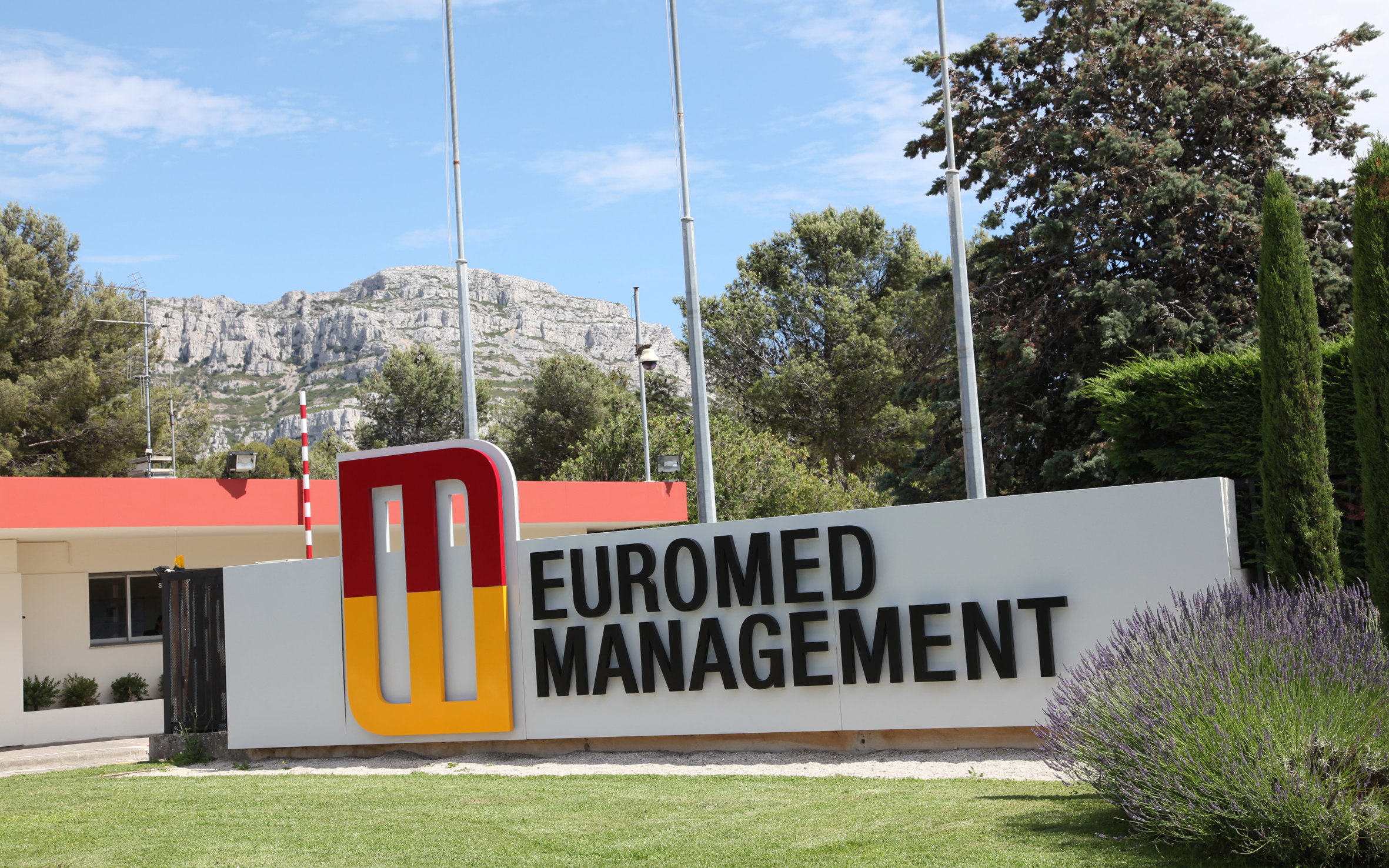 Entrance Euromed Management